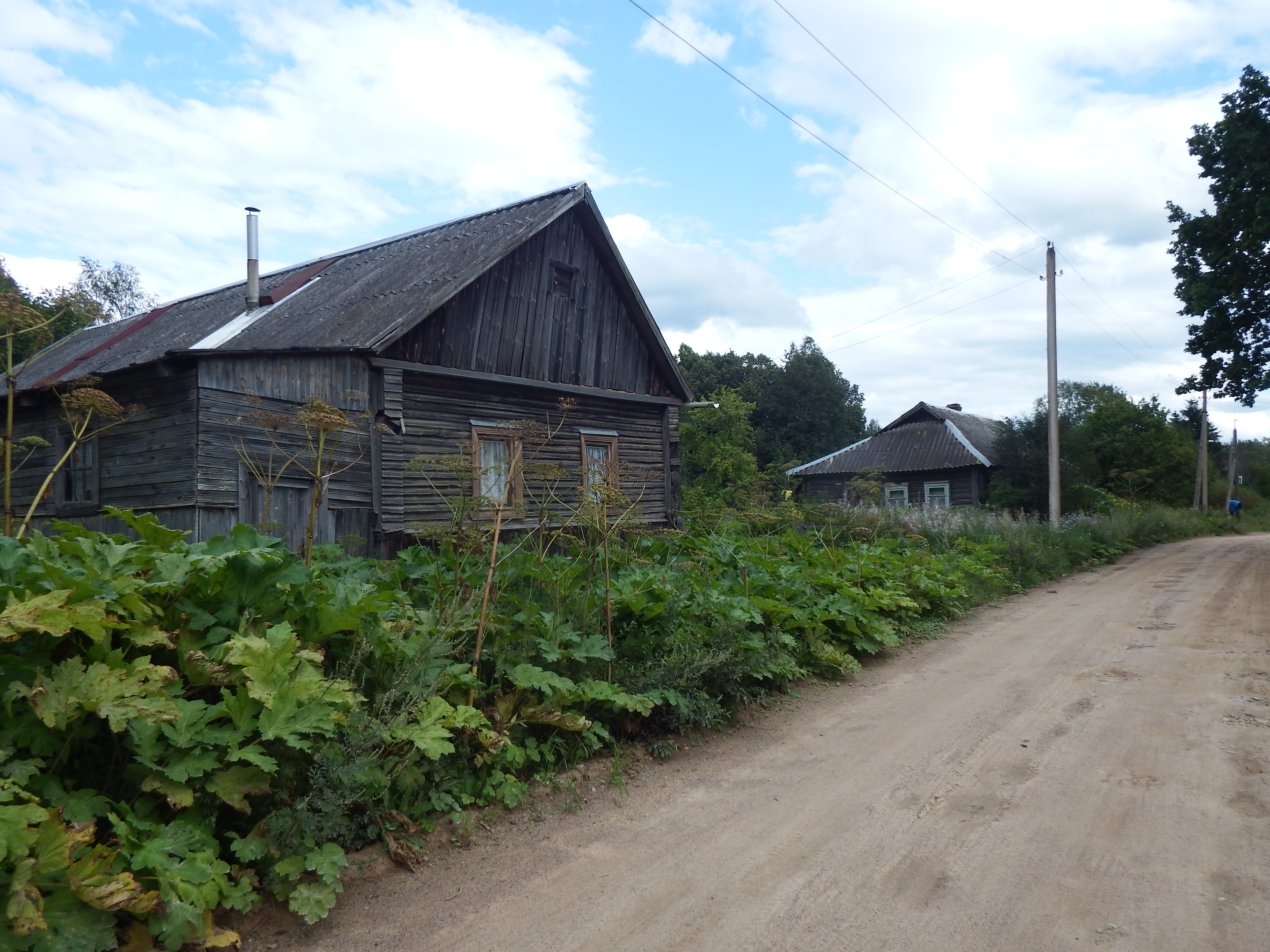 Lotochovo country, Pliussli district, Pskov region